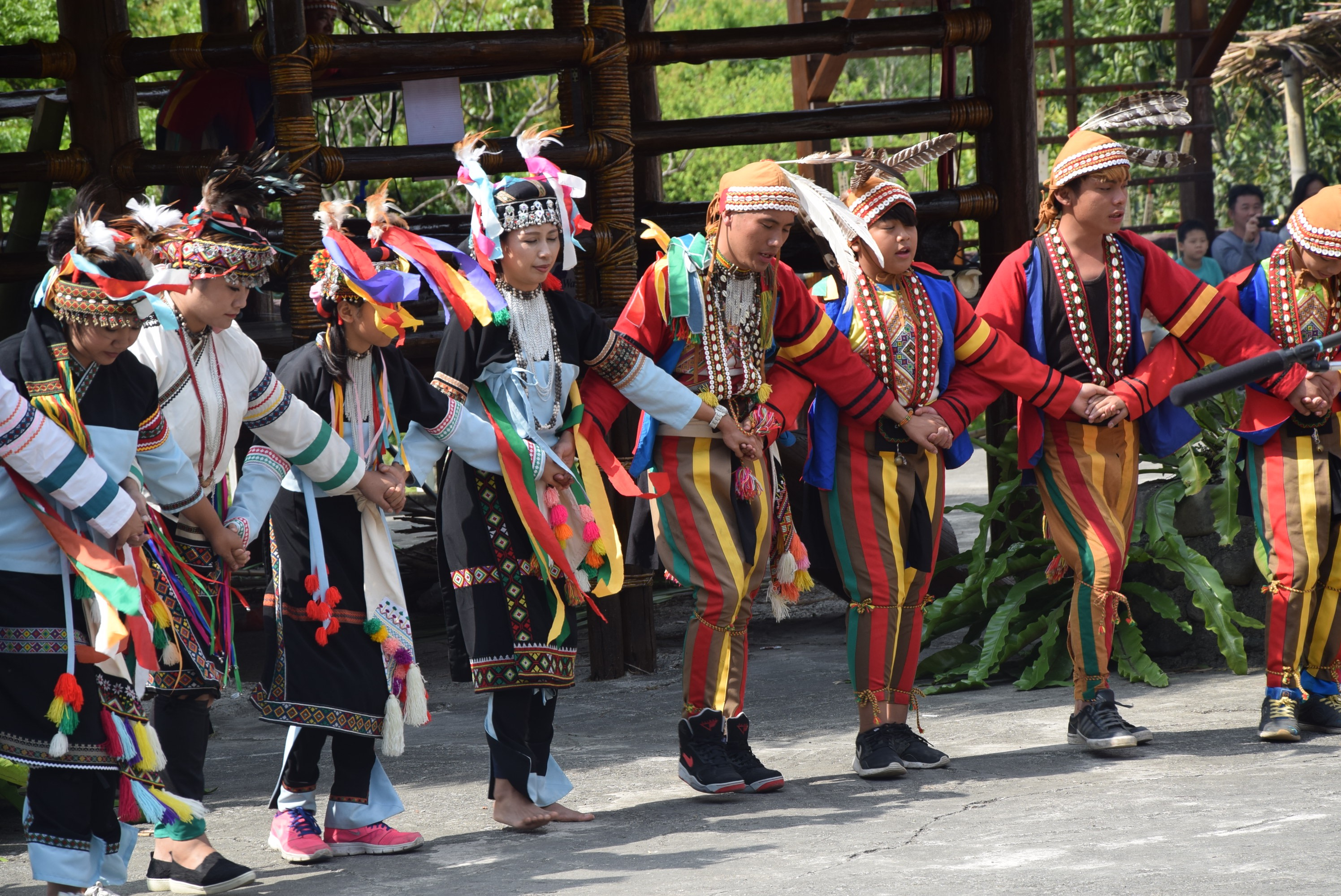 Hla'arua people on the ceremony Miatungusu.